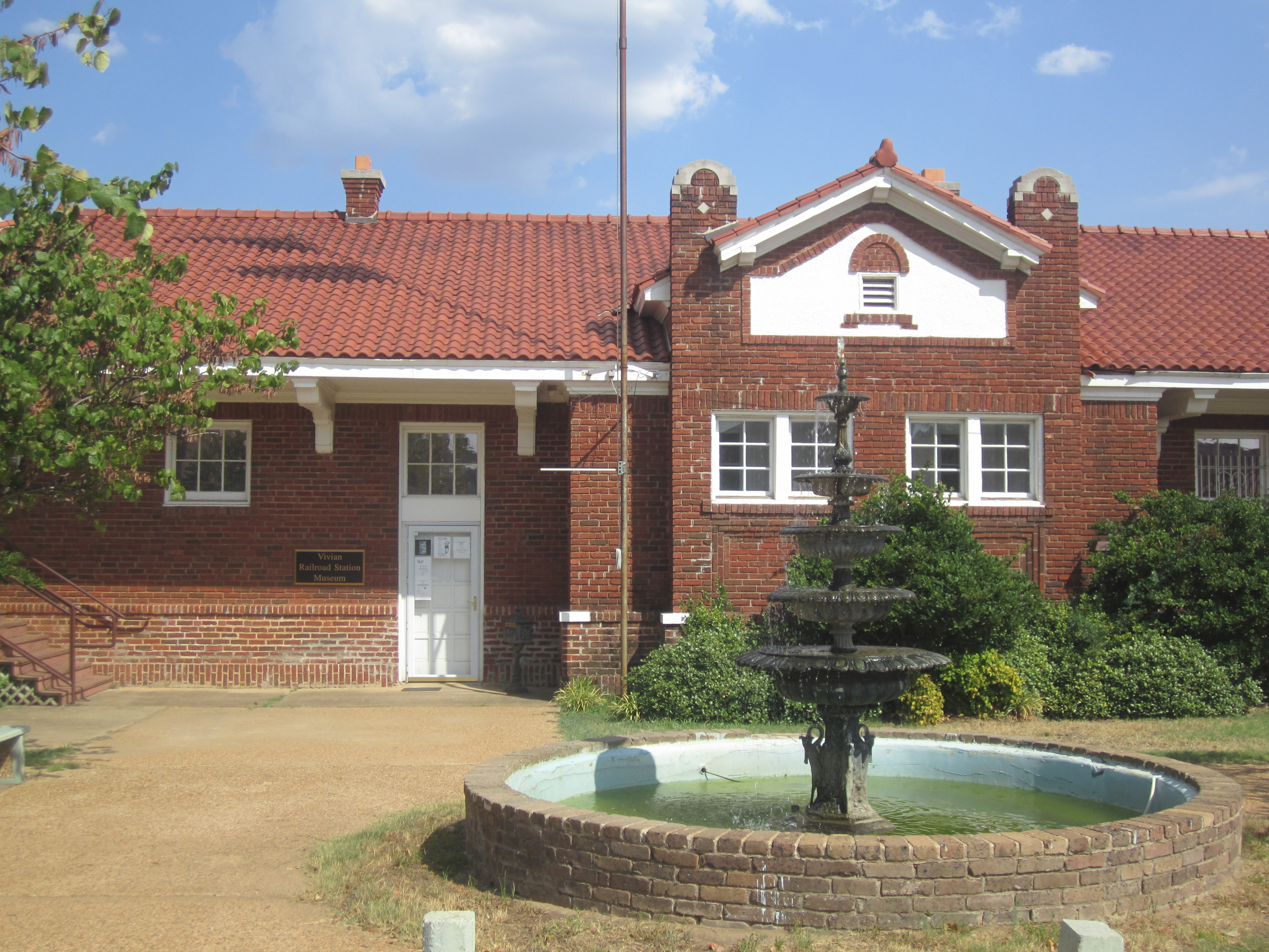 I took photo of Vivian Railroad Station Museum with Canon camera.